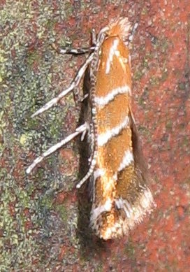 Adult of Cameraria ohridella. Taken by Soebe in Northern Germany and released under GNU FDL.